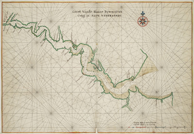 Johannes Vingboons, Caert van de rivier POWHATAN. Geleg in NIEW NEDERLANDT". 17th-century map of the James River in Virginia.